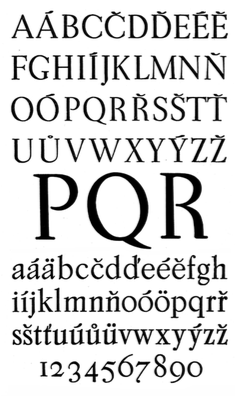 Malostranská antikva typeface